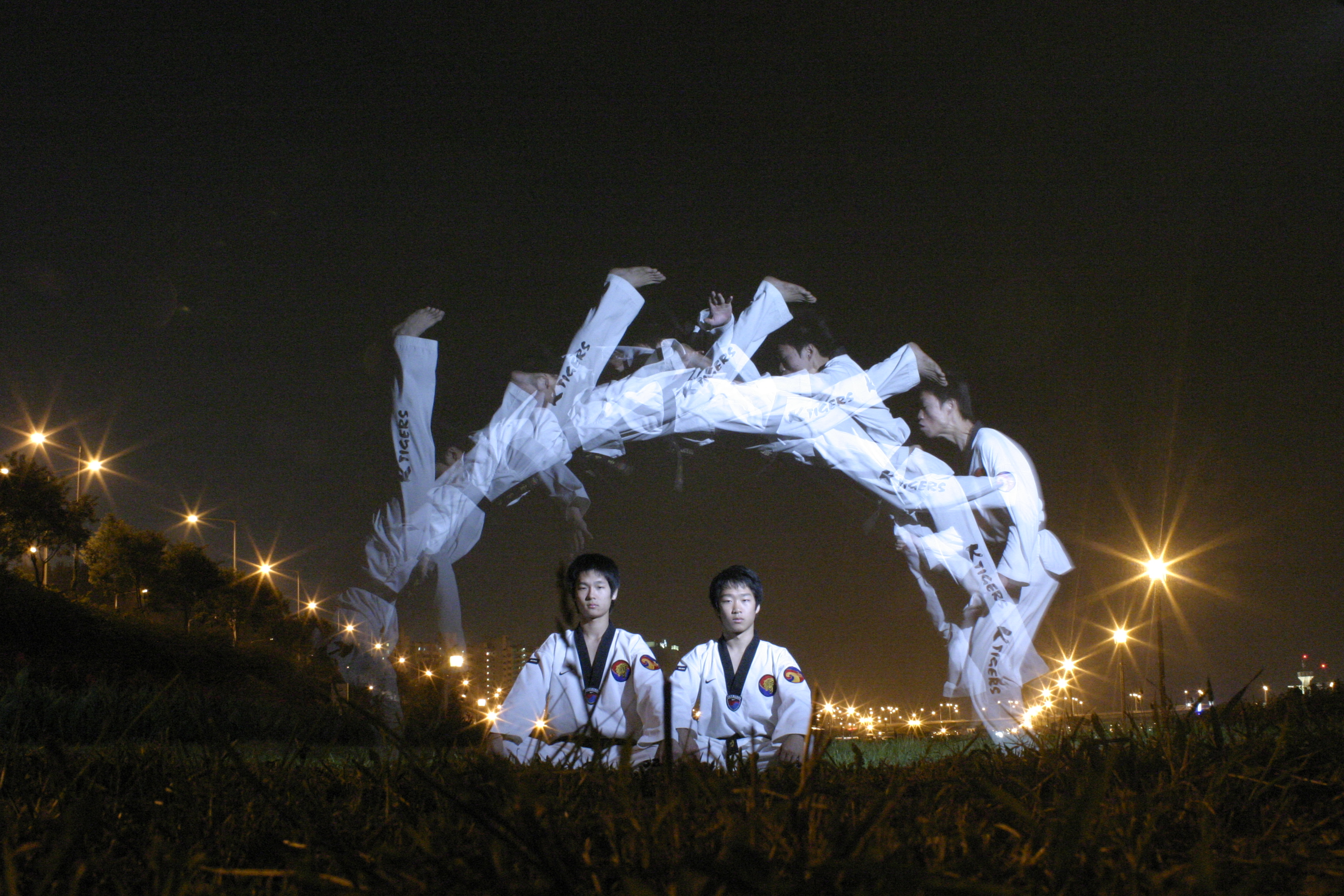 The K Tigers Taekwondo provides world-class teaching and training the Korean martial arts emphasizing respect, health and fitness.